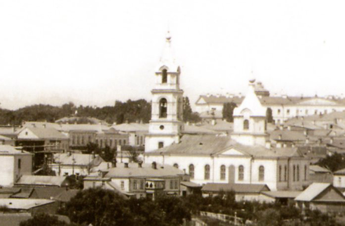 St. George church in Oryol by the Bolkhov Street at the begining of XX centuary